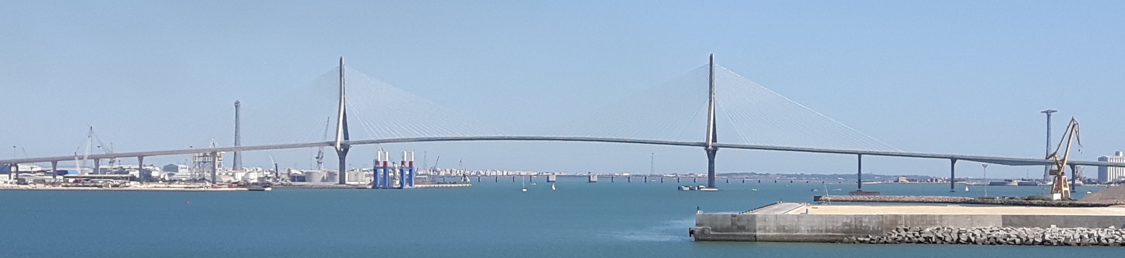 bridge over the bay of cádiz